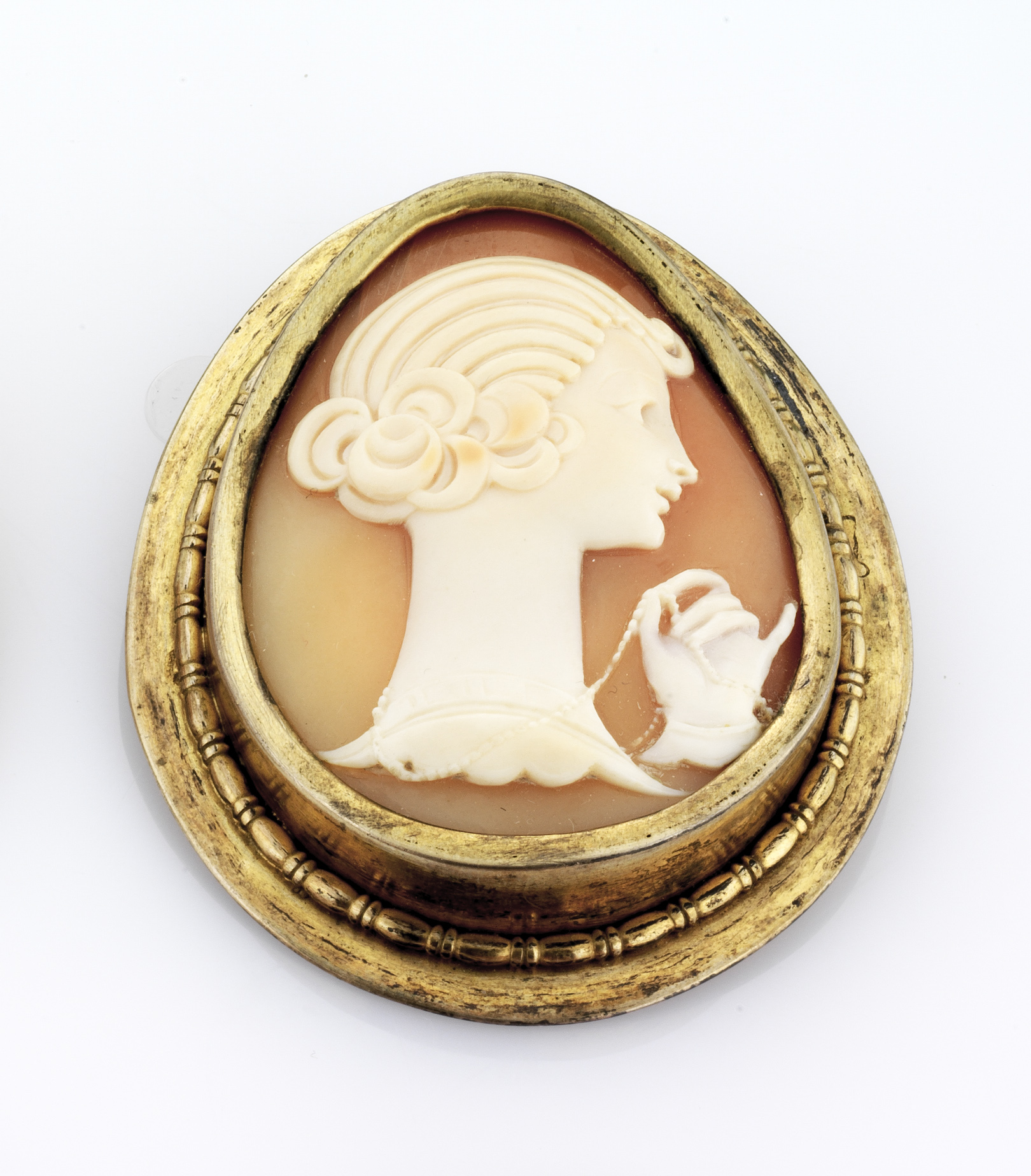 shell-cameos (cassis rufa) and gold, 1932, by the Italian ivory caver Giovanni Noto (1902-1985).